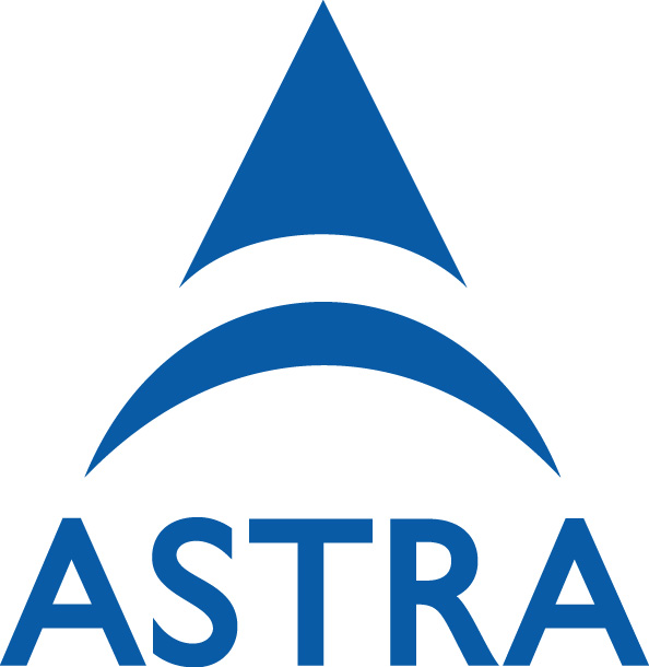 Logo of SES Astra SES Astra